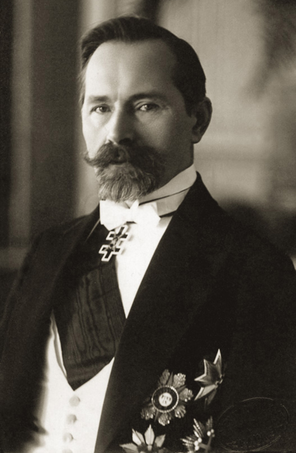 Antanas Smetona. One of the signatories of Lithuanian independence act. First President of Lithuania.